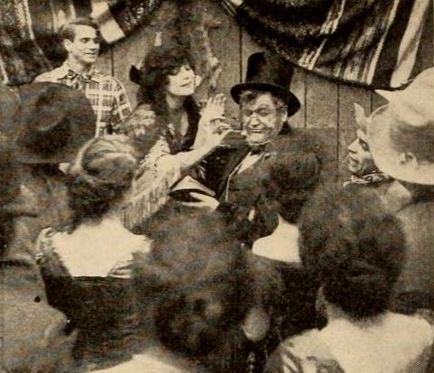 Still from the American western film Heart of Juanita (1919) with Beatriz Michelena, other actors are not identified, on page 92 of the December 13, 1919 Exhibitors Herald.